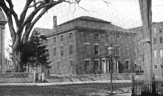 Public library, Massachusetts